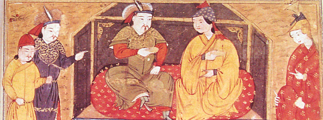 Hulagu With His Christian Wife Doquz Khatun